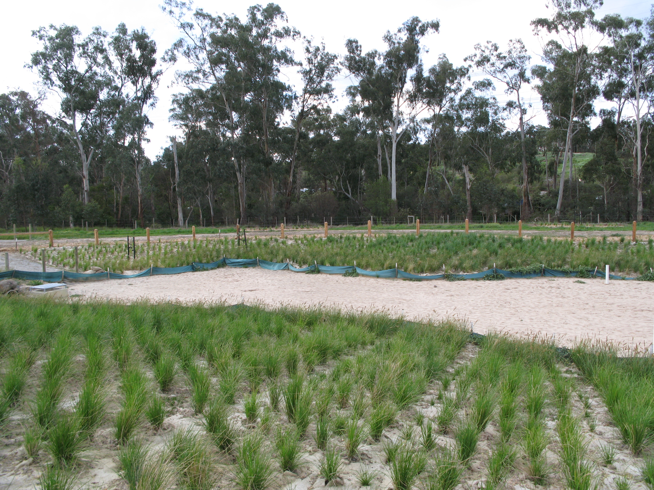 a small area of wetland regeneration in south-eastern Australia, recently constructed.